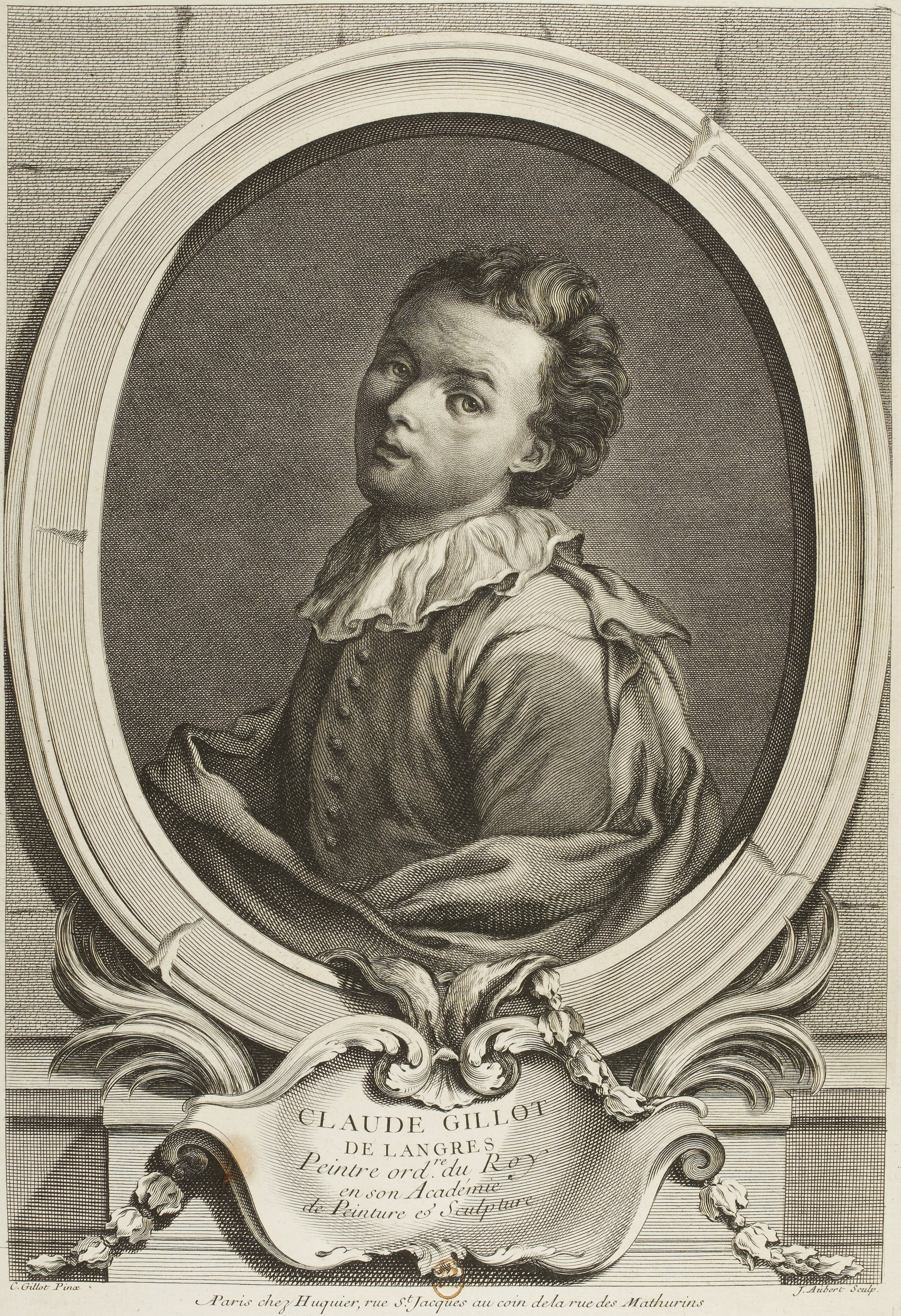 Engraving of Claude Gillot after a portrait painting by Antoine Watteau